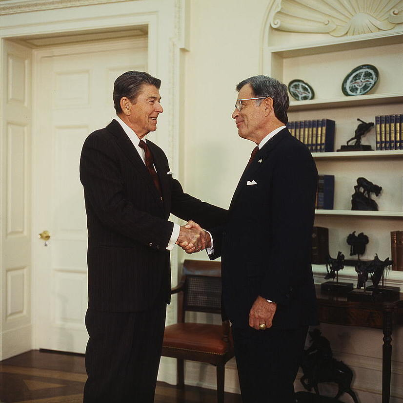 President Ronald Reagan with Republican Senator Jeremiah Denton to support his bid for reelection